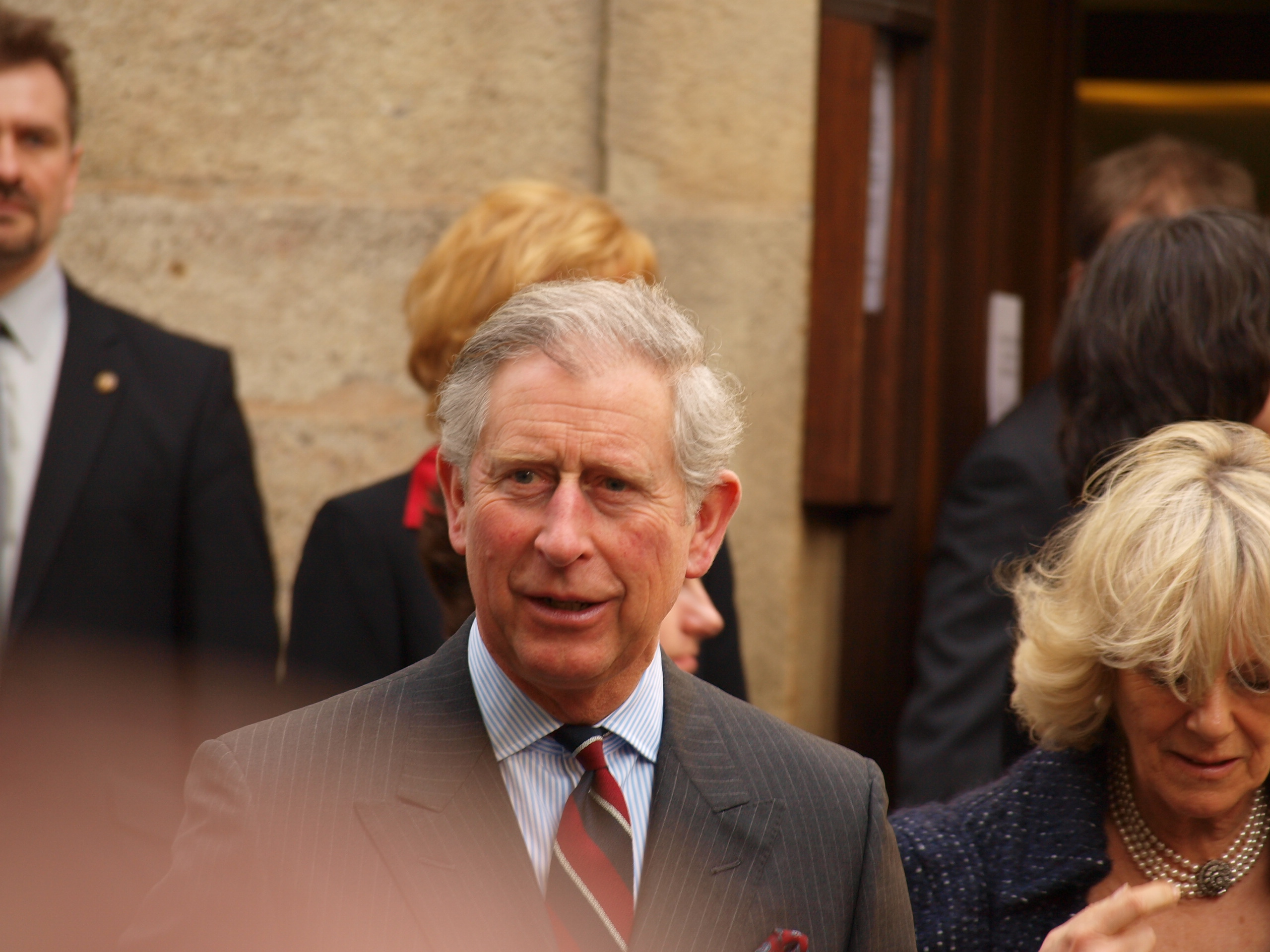 Prince Charles in Prague, visiting the Orthodox Church of ss. Cyril and Methodius